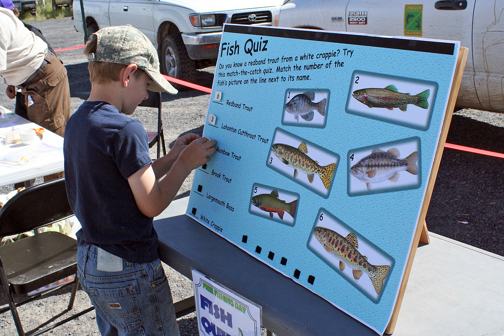 In southeast Oregon, Harney County’s Annual Free Fishing Day was held Saturday, June 16. Partners and sponsors hosted a great event with over 75 youth participants and their families. Attendees practiced casting, caught lots of fish, made pocket tackle boxes, learned about different fish species with a “fish quiz,” and won prizes in the First Fish Caught and Biggest Fish Caught categories.